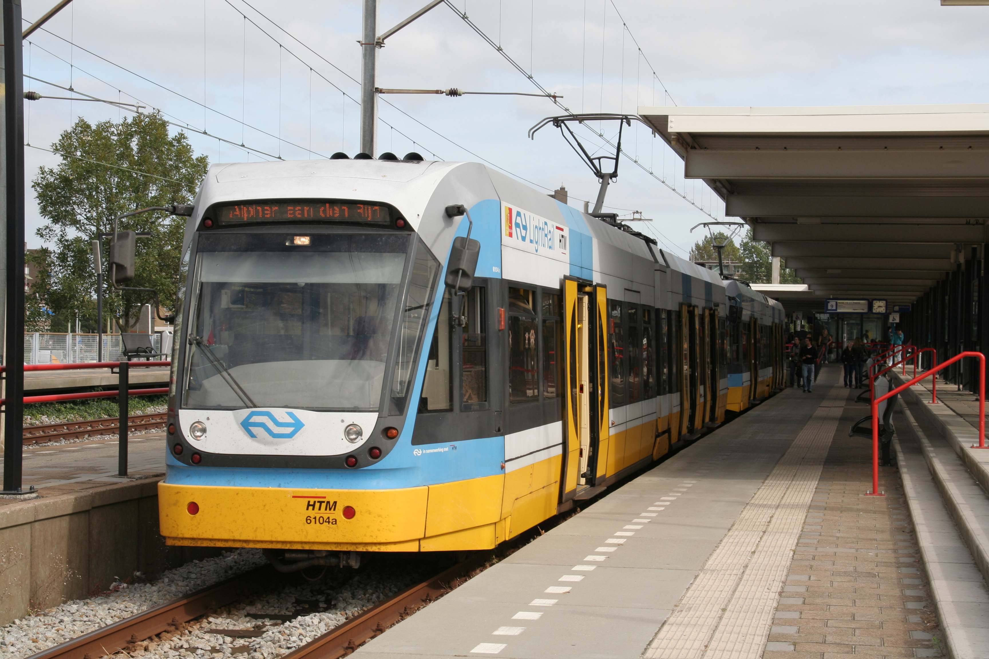 A Bombardier A32 tram in Gouda.